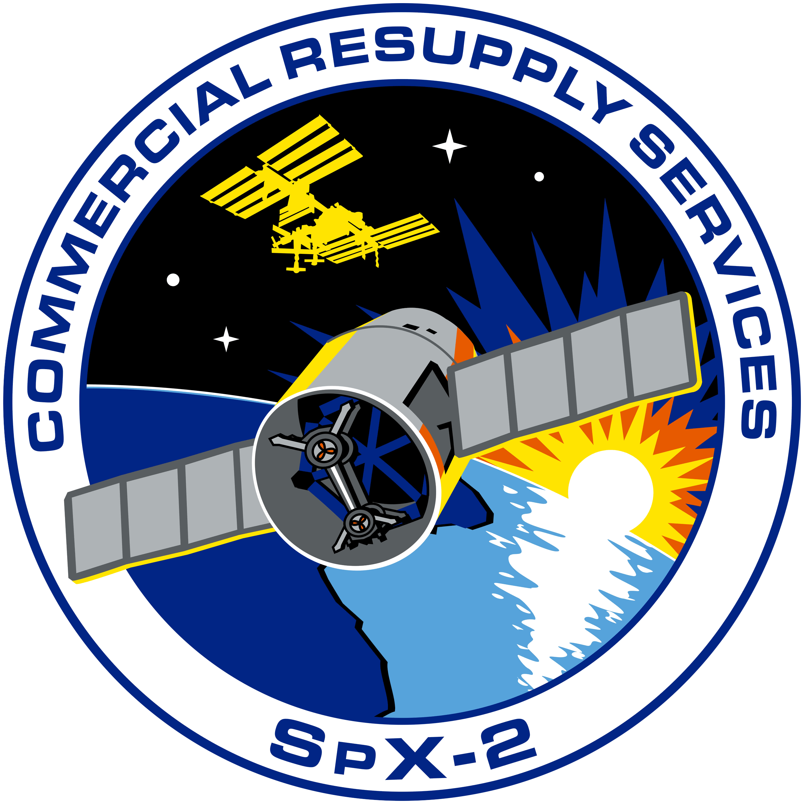 NASA's insignia for SpaceX's Commercial Resupply Services-1 (CRS-2) mission to the International Space Station (SpX-2)